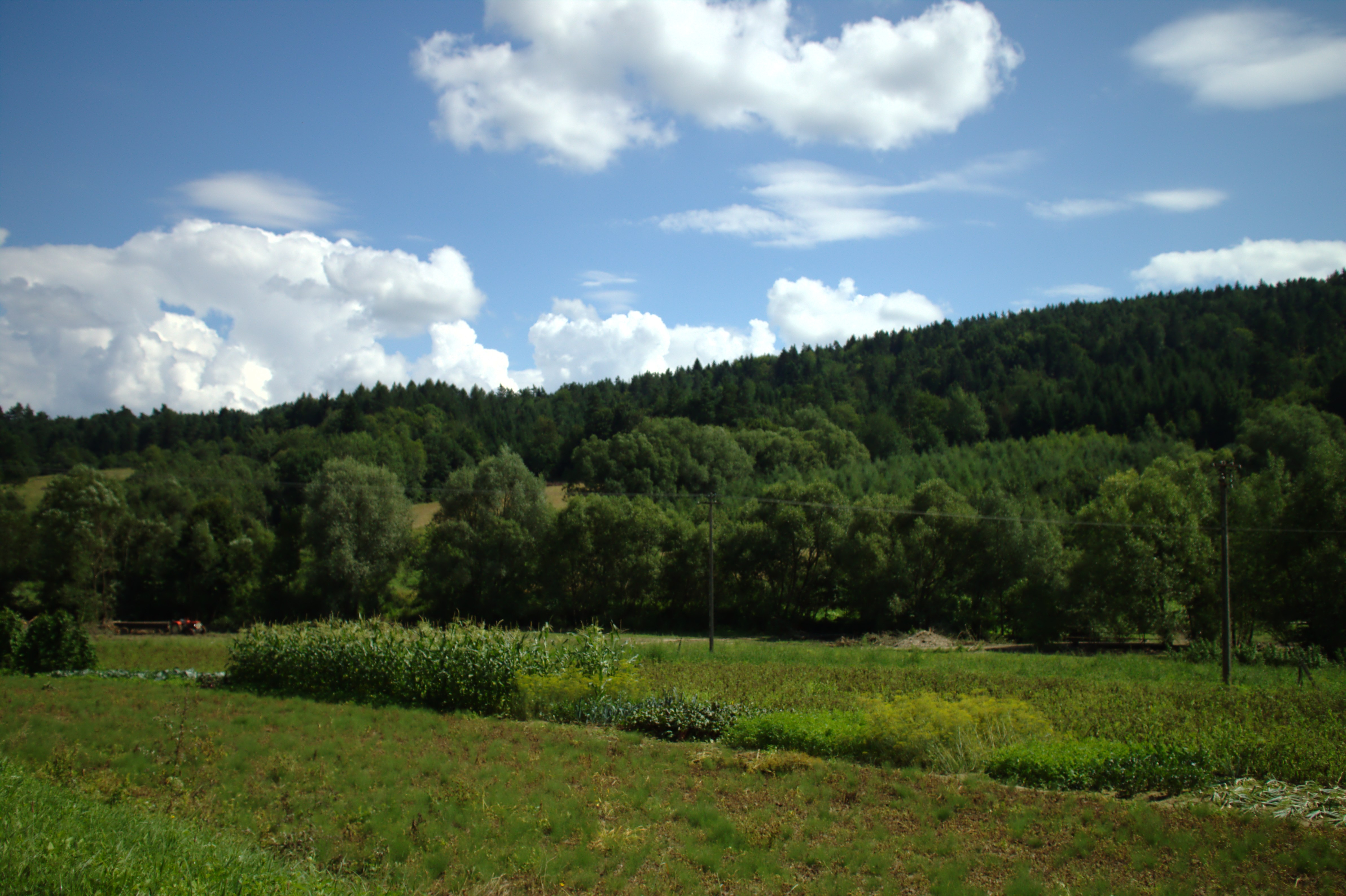 Polish countryside near the village of Iskań and San River valley